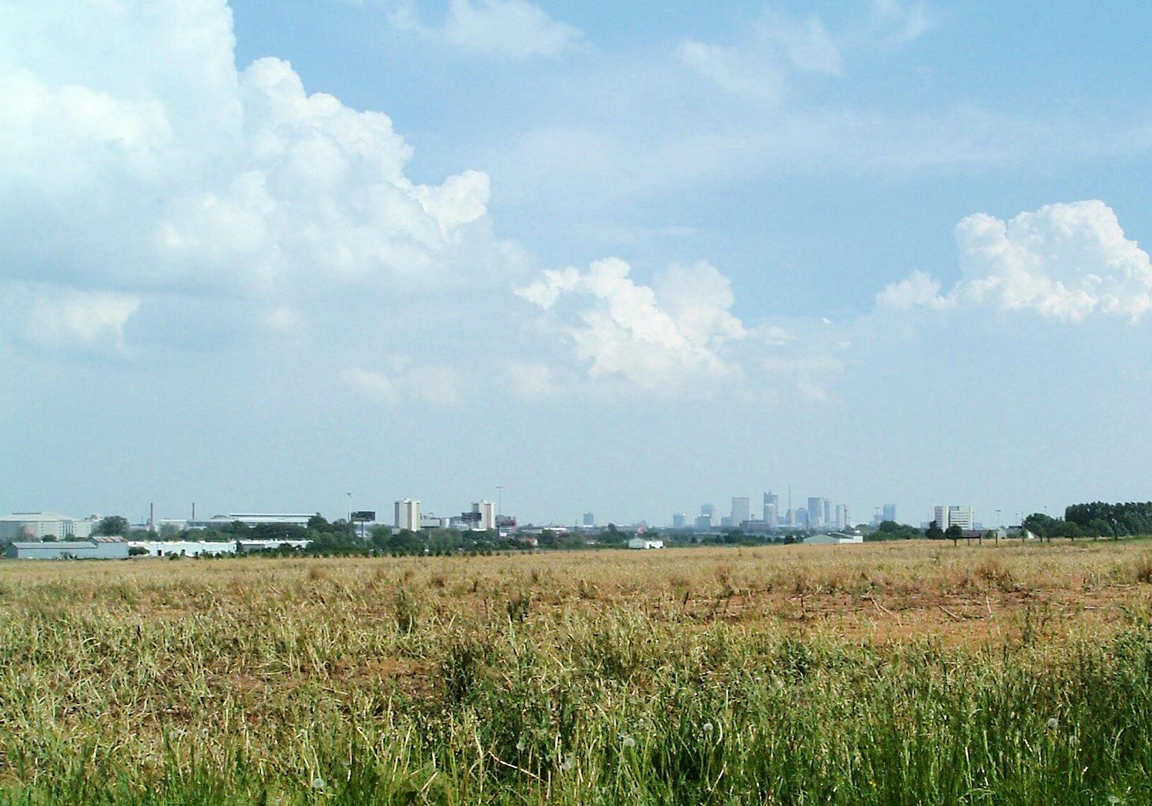 Skyline of Columbus from the Waterman Farm on the campus of The Ohio State University